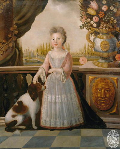 Eleanor Darnall painted by Kuhn, circa 1710